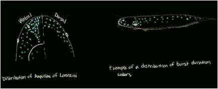 An example of the distribution of the Ampullae of Lorenzini in a shark and the Burst Duration Coders (BDCs) in a weakly electric fish Hypopomus.